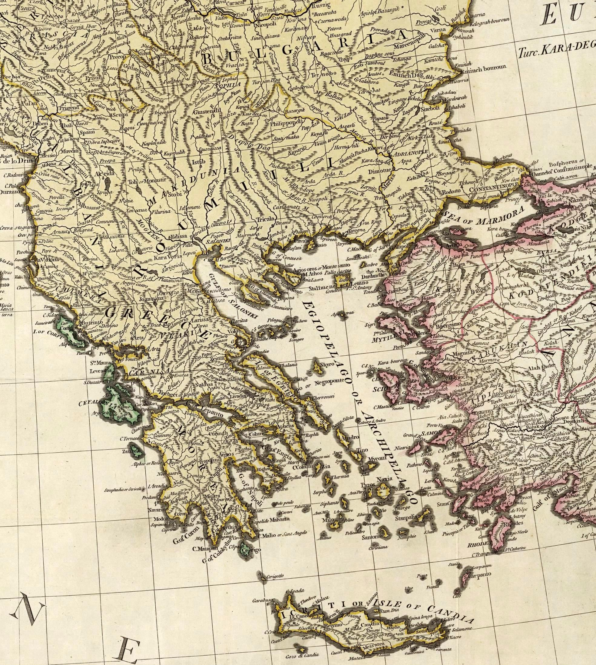 (Composite of) A map of the Mediterranean Sea with the adjacent regions and seas in Europe, Asia and Africa. By William Faden, Geographer to the King. London, printed for Wm. Faden, Charing Cross, March 1st, 1785.